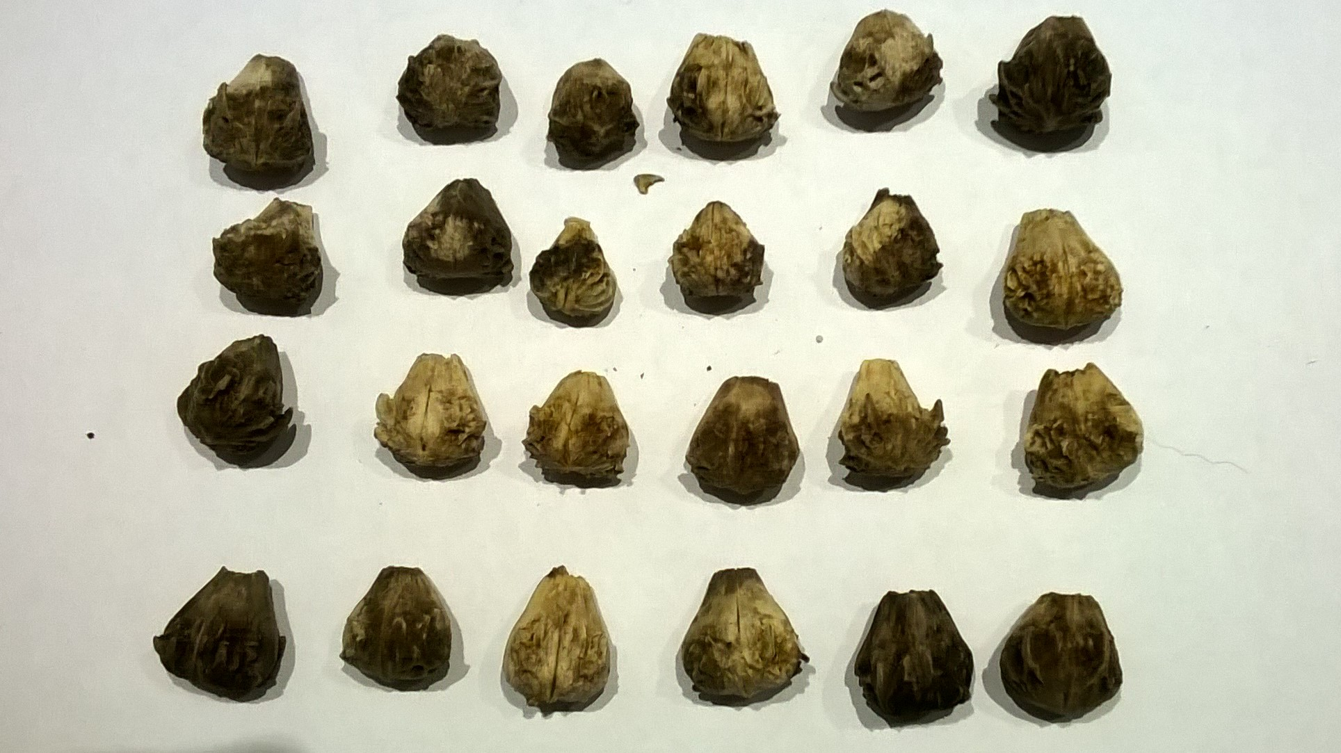 Side views of endocarps of the Vitex lucens Puriri fruit from a single tree. Lighter colour indicates surrounding fruit that was removed had not decayed. Varying size and shape consistent with reported variation in the number of viable seeds in each nut (endocarp).